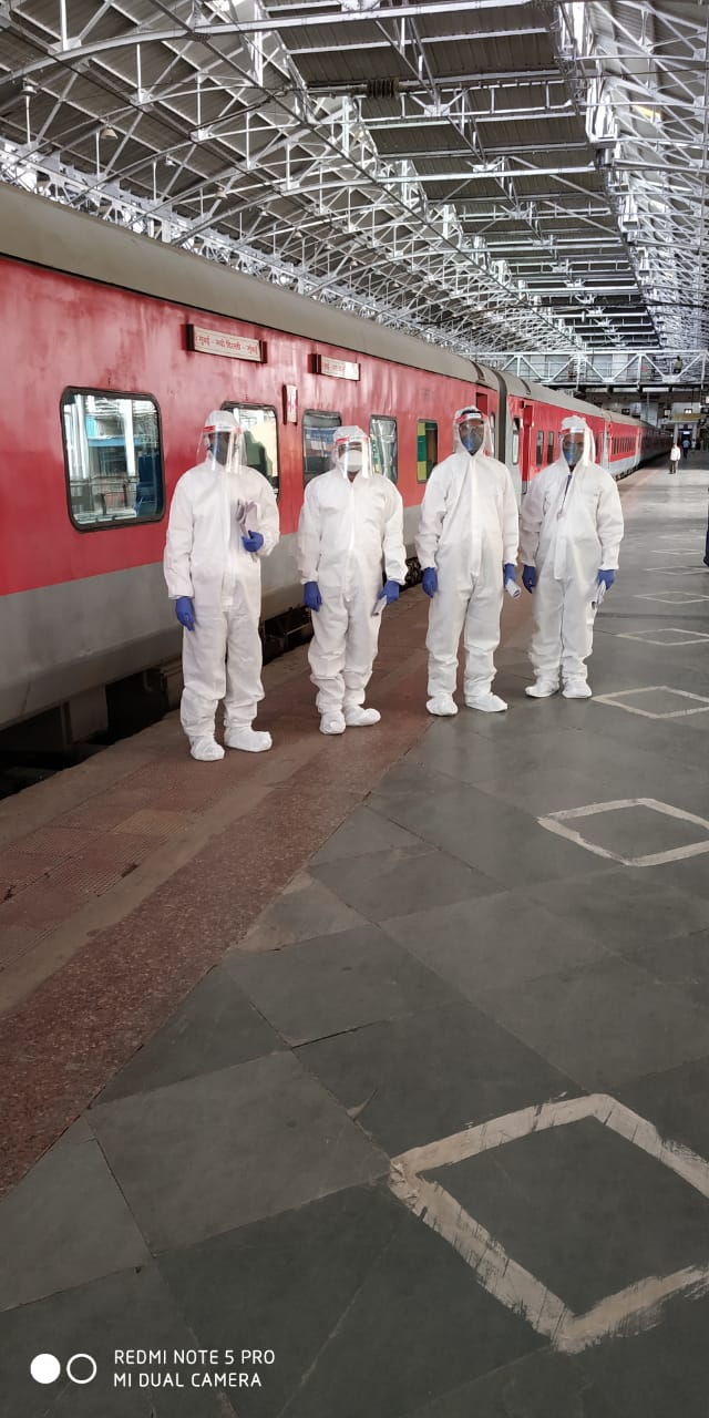 WR Ticket checking staff in PPE kits